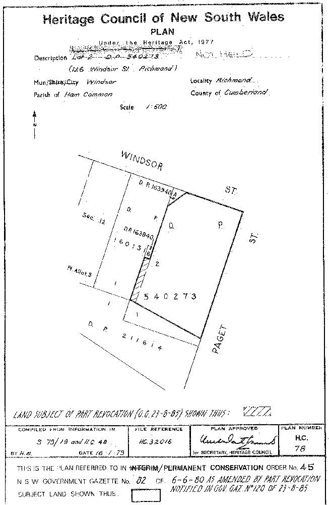 126 Windsor Street, Richmond: PCO Plan Number 045